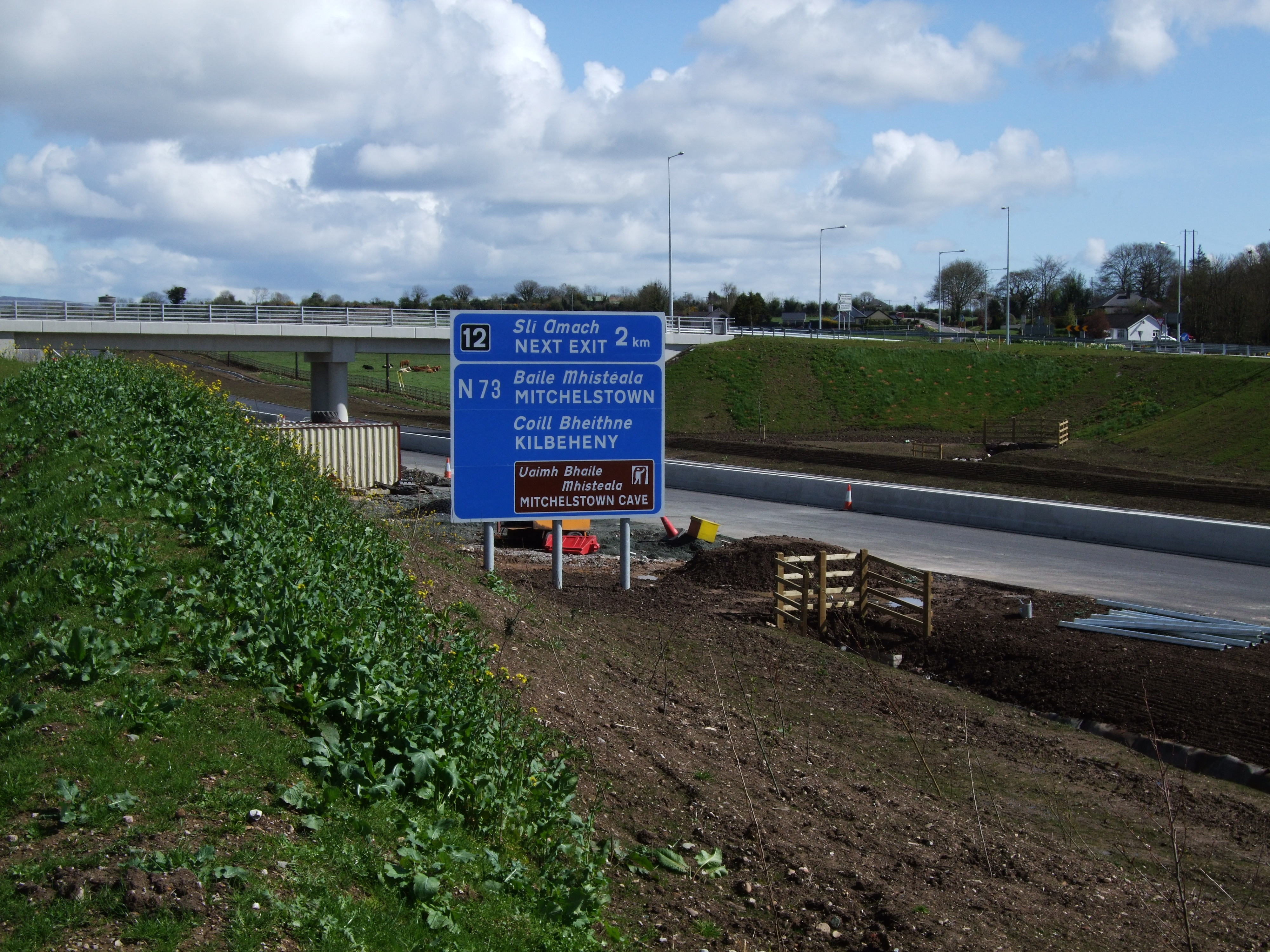 New ADS signage on the M8 Mitchelstown to Fermoy scheme.